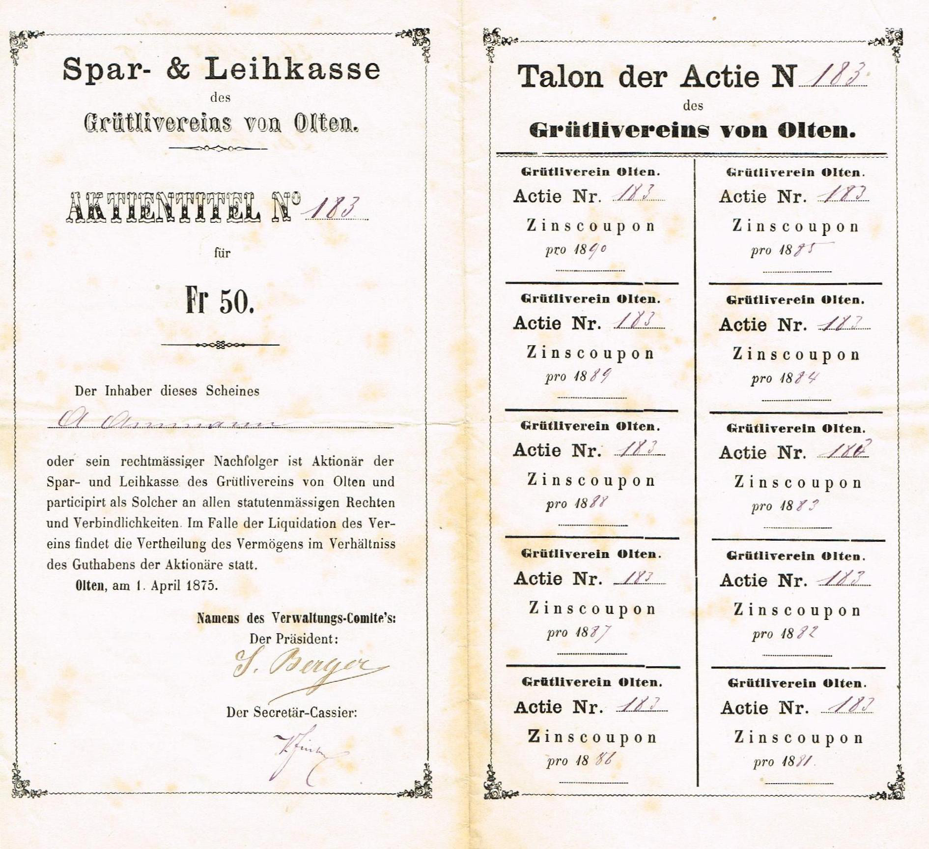 Share of the Grütliverein von Olten, issued 1. April 1875